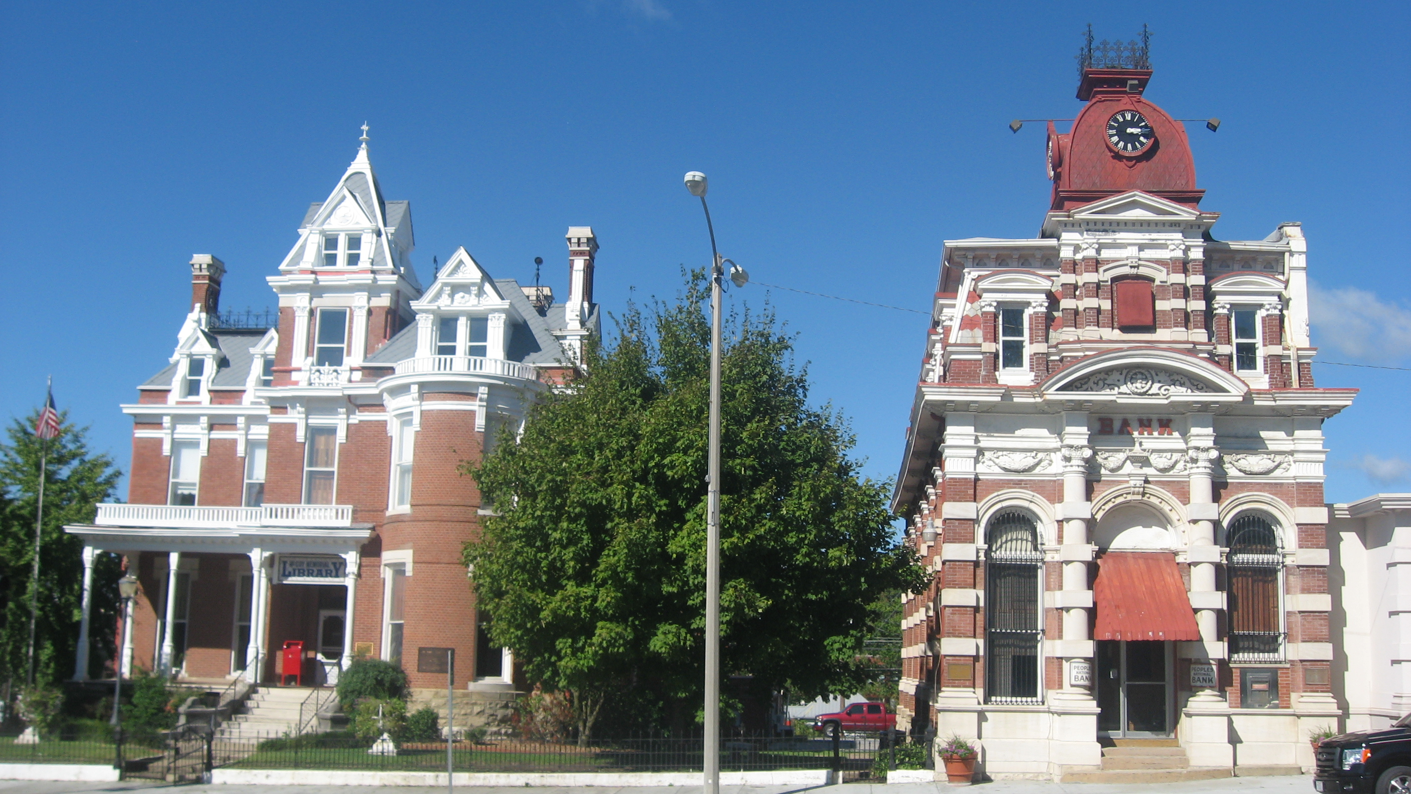 Street view of the Aaron G. Cloud House and the Cloud State Bank, located at 164 and 108 S. Washington Street in McLeansboro, Illinois, United States. Built in 1882, both are listed on the National Register of Historic Places.